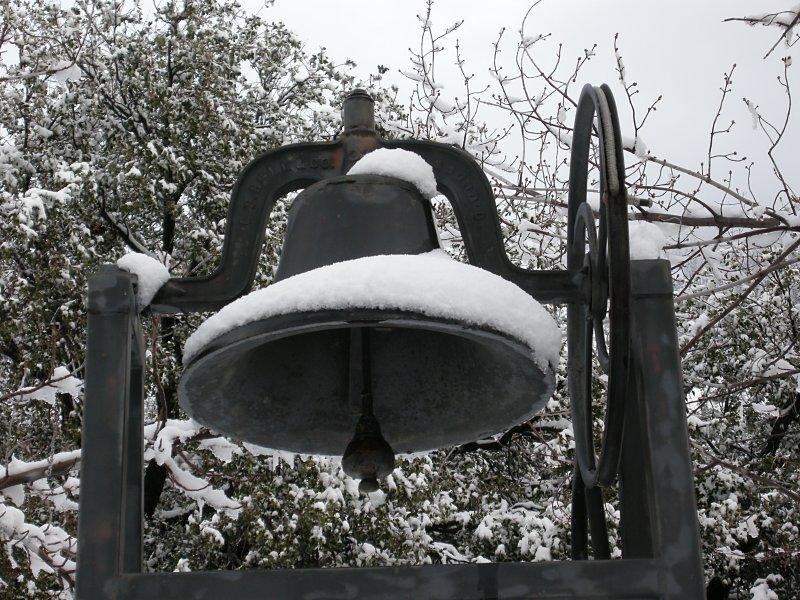 Closeup of Mt. Baldy School Bell with snow. Photo by Richard E. Ellis